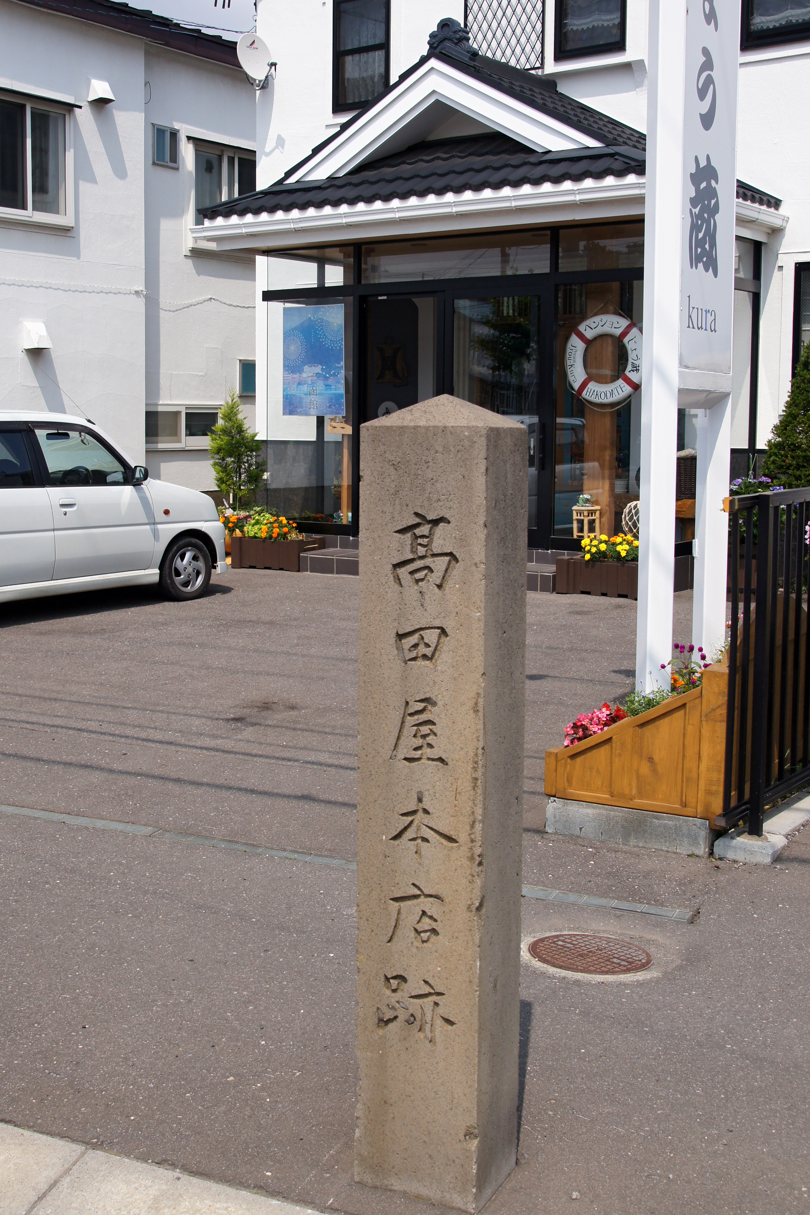 at Omachi, Hakodate, Hokkaido prefecture, Japan